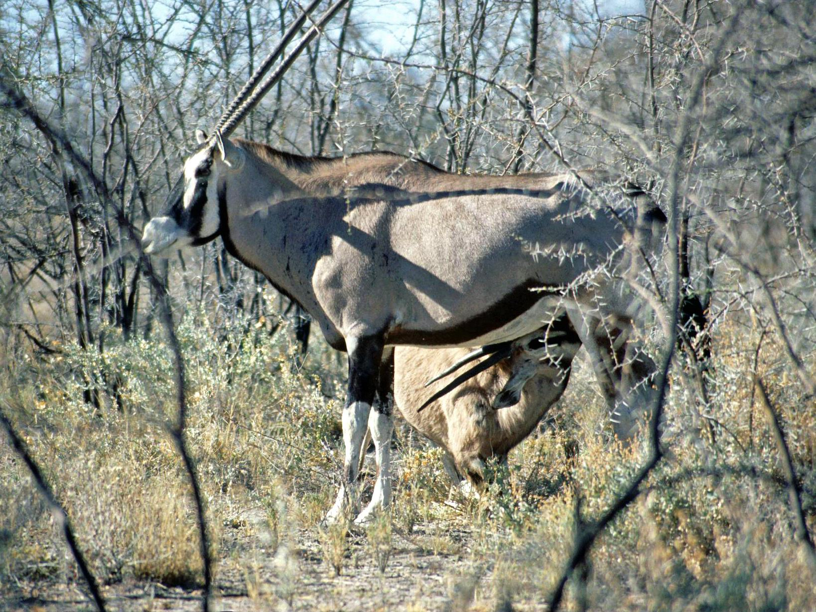 Gemsbok (Oryx gazella), Etosha National Park, Namibia